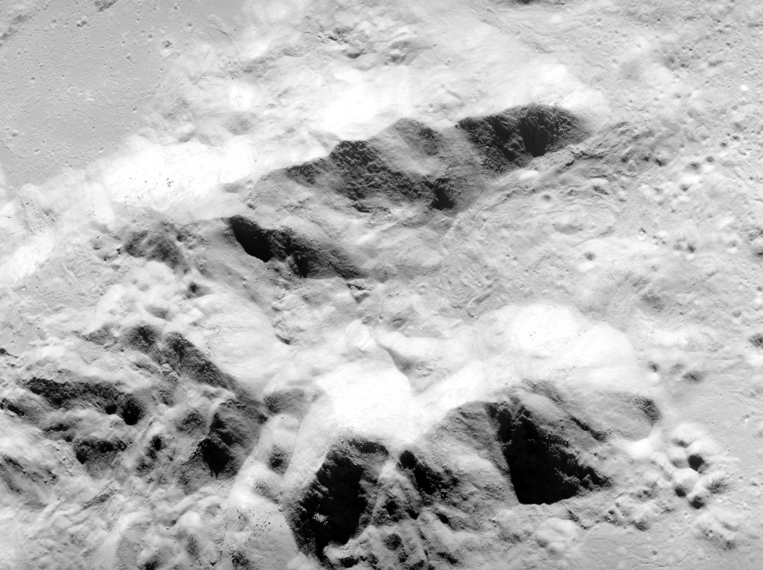 The double central peaks of King, on the moon. This is Figure 151 of Apollo Over the Moon (NASA SP-362, 1978), which has the following caption: The northern part of the central peak complex of the crater King is shown in this enlarged view. The massifs forming the arms of the central peak trend approximately north-south. They are crossed by linear valleys that are the surface expressions of faults. The blocks that litter the peaks attest to the freshness of the structure and, therefore, of the crater King itself. The floor material surrounding the massifs is very hummocky and shows many flow patterns. Arcuate flow boundaries, flow channels, and cooling cracks indicate that this material was once molten, perhaps because of shock melting at the time of the crater formation.-F.E.-B.